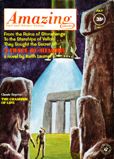 Cover of Amazing Stories,July 1962